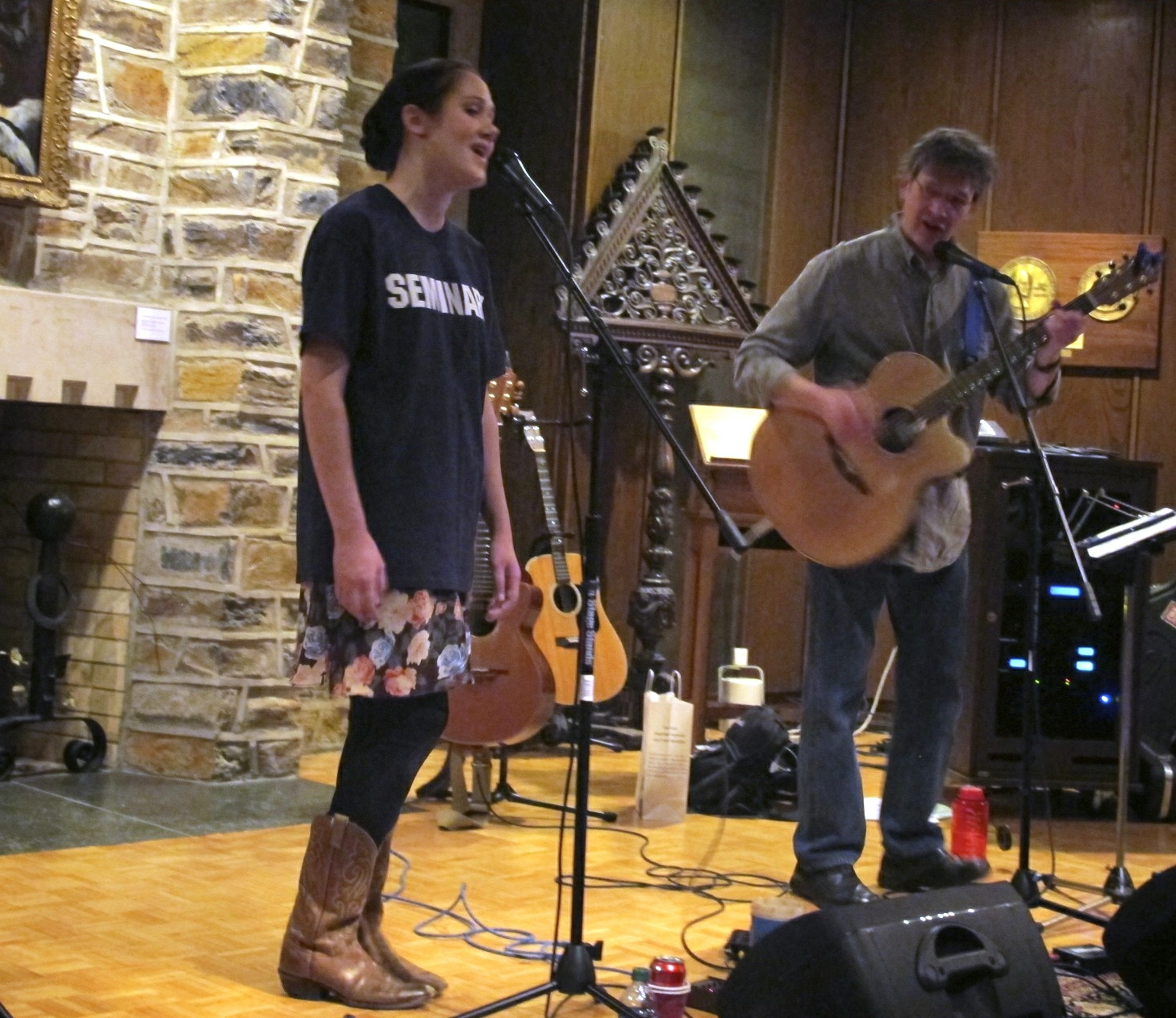 American musicians Pierce Pettis, on guitar, and daughter Grace Pettis, singing, performing for Duke Initiatives in Theology and the Arts of Duke University Divinity School.